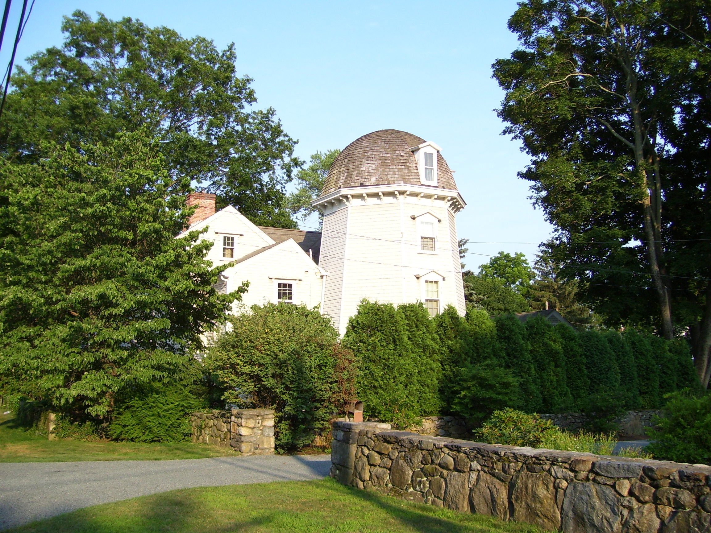 This is my 2008 photo of Longfellow's Windmill Cottage in East Greenwich, Rhode Island.